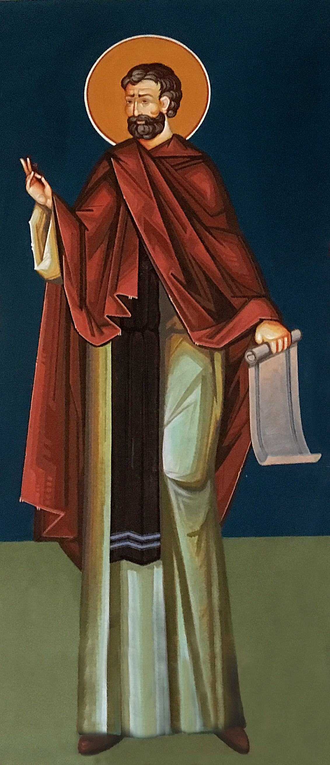 Saint George of Kratovo (contemporary orthodox iconography) Serbia